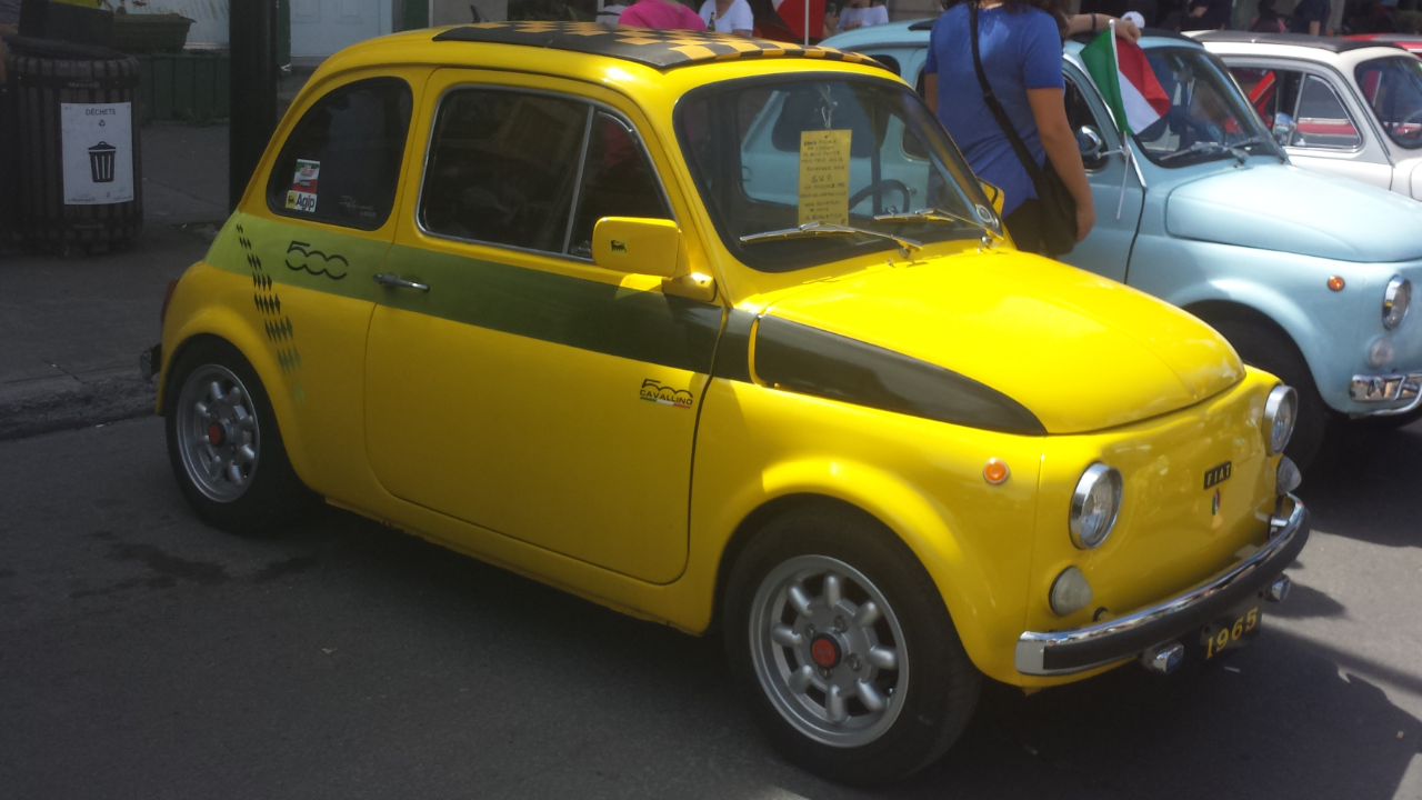 Fiat 500 photographed in Montréal, Québec, Canada at the 2017 Italian Week.